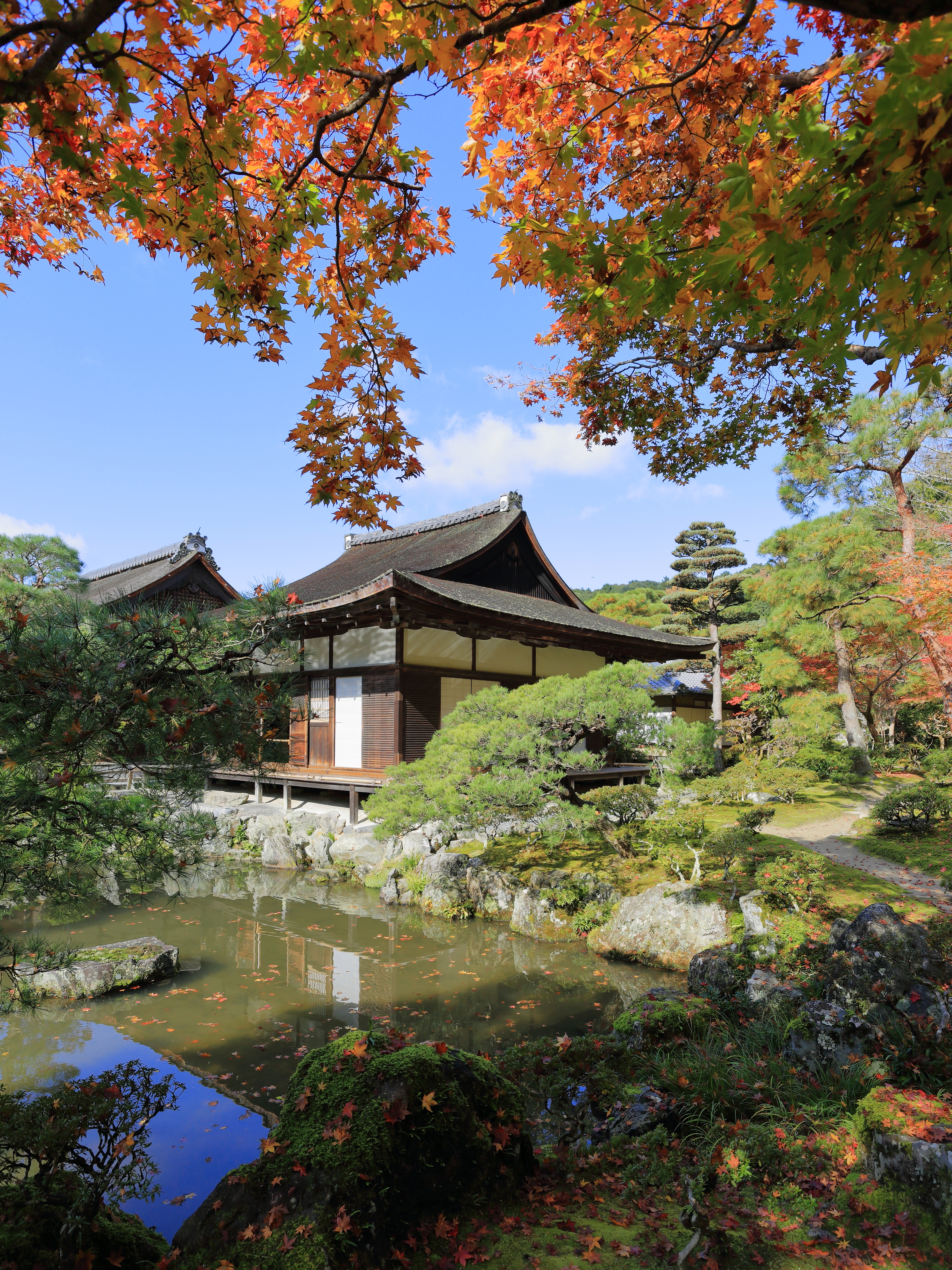 Ginkaku-ji, officially named Jishō-ji, lit. "Temple of Shining Mercy", Kyoto, Japan: view of Tōgudō Hall, part of UNESCO World Heritage Site Ref. Number 688.